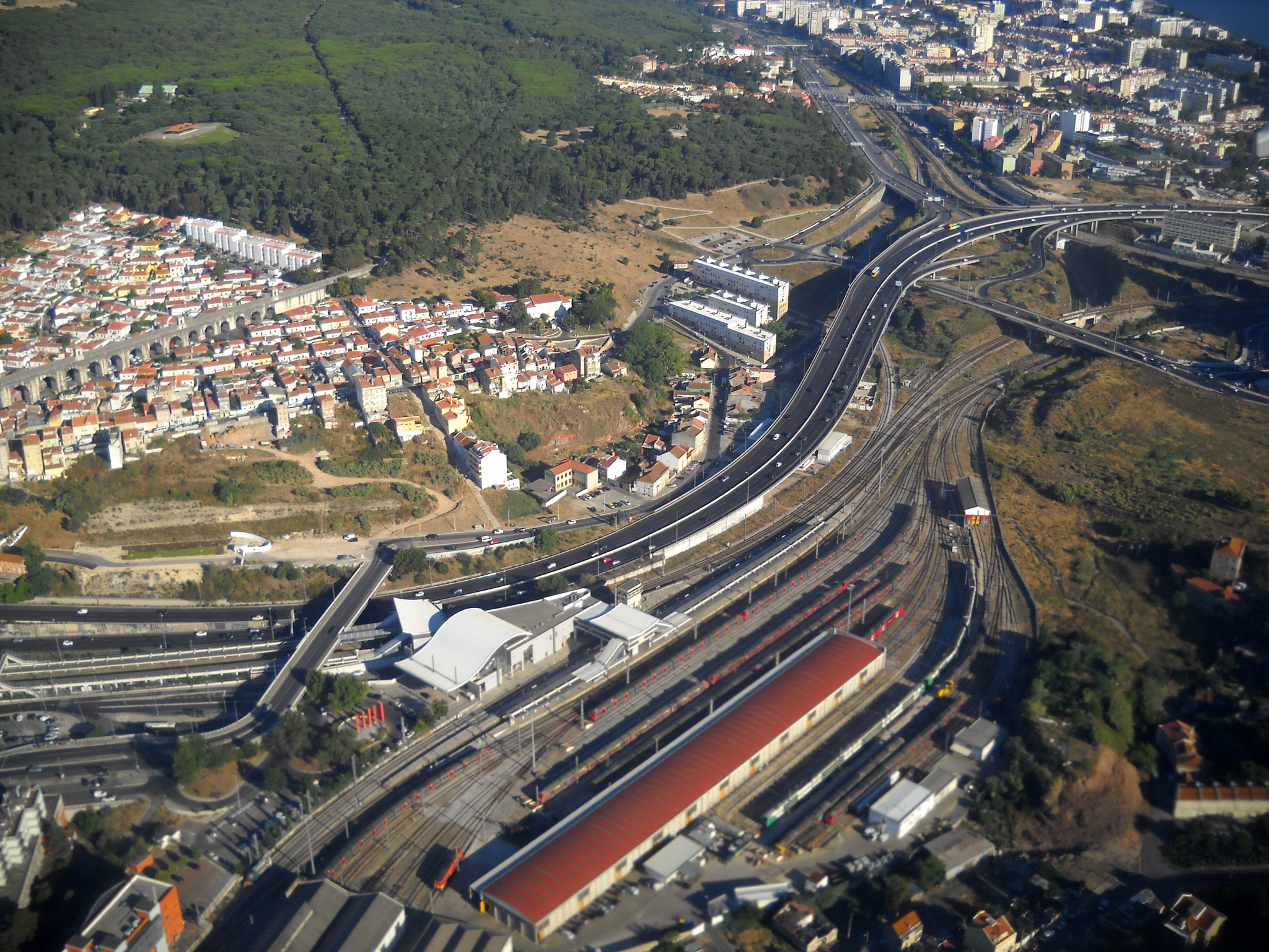 Approaching Lisbon